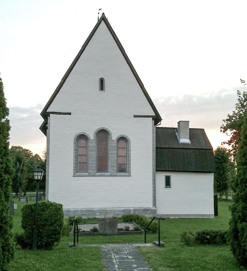 Church of Vänge, Gotland, SE